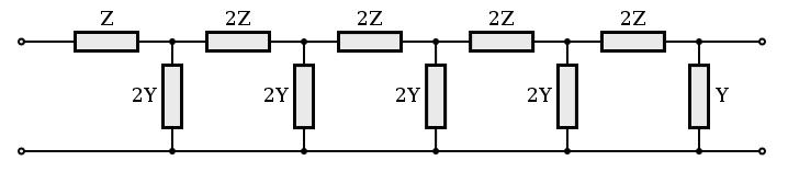 gaga